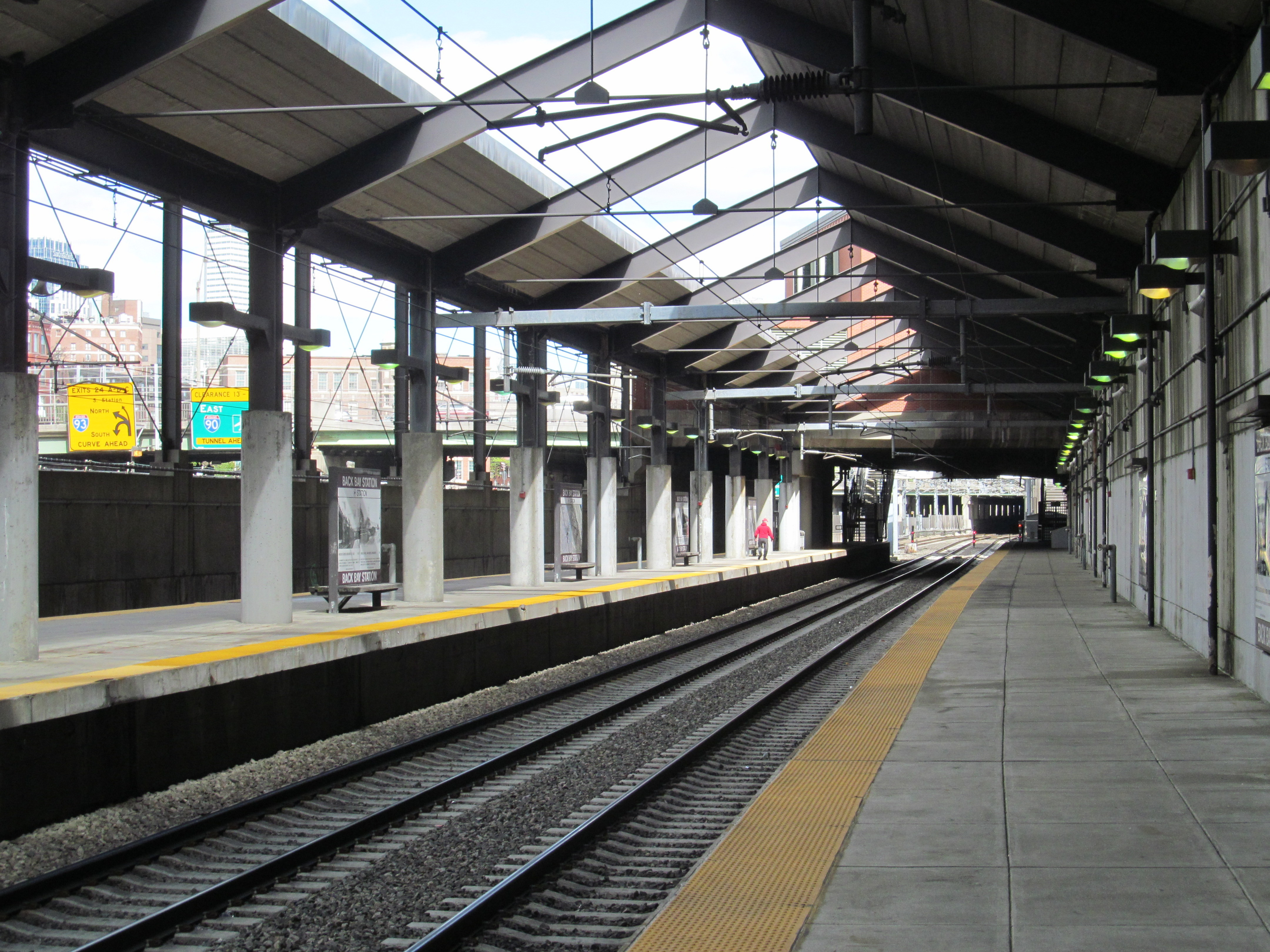 The large open-air trainshed at Back Bay contains the three tracks of the Northeast Corridor. This view looks east, away from the headhouse and towards South Station.